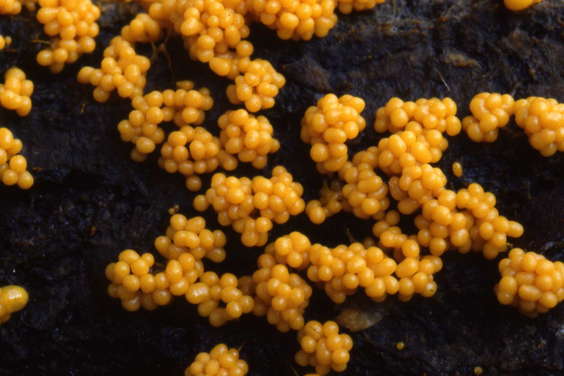 IBadhamia utricularis, immature sporangia